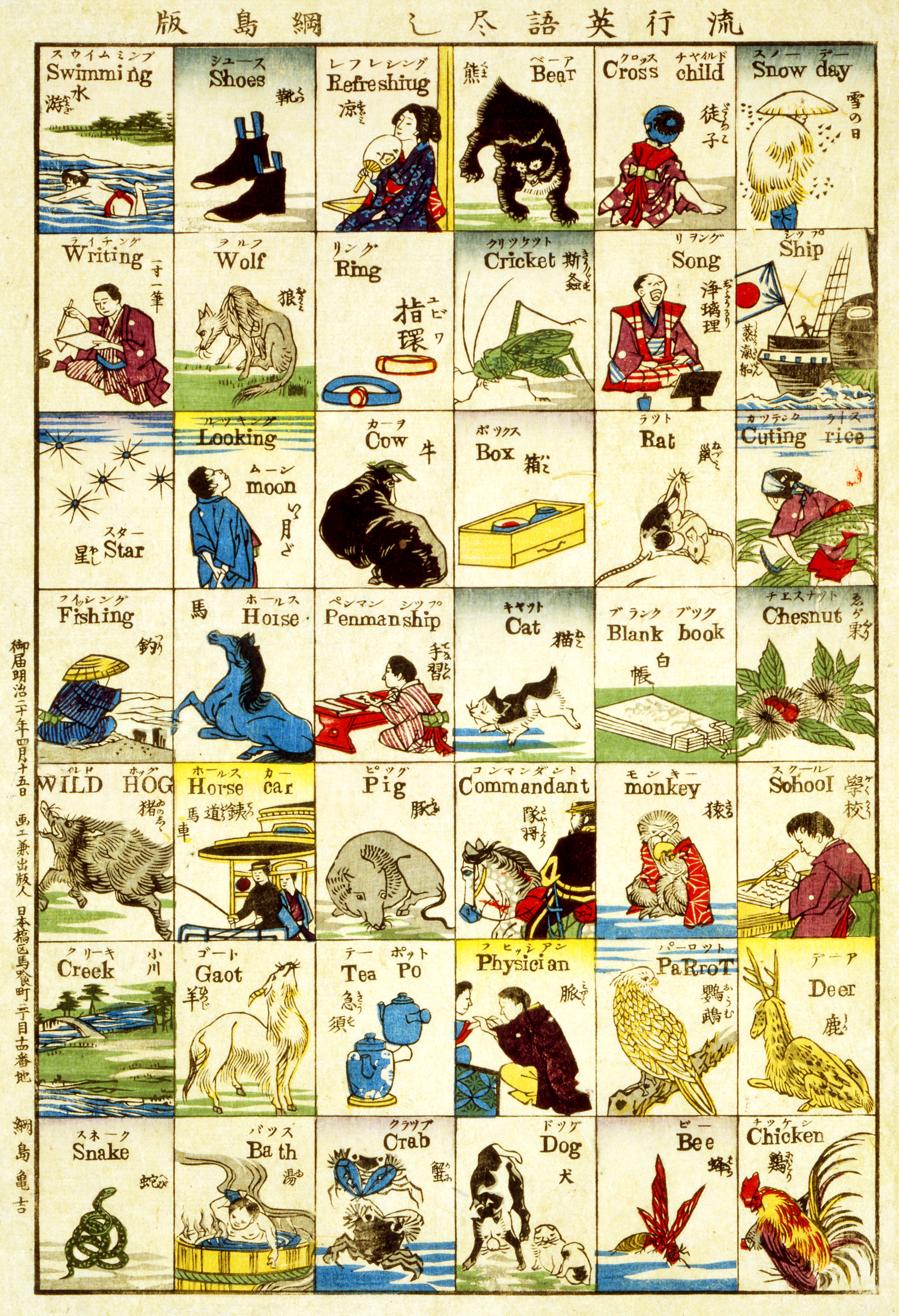 Ryūkō eigo zukushi (fashionable melange of English words), woodcut showing images of animals such as cats and snakes; activities such as writing and looking; objects such as shoes and boxes; and people. Each image is labeled in Japanese and English. Woodcut print on hōsho paper.